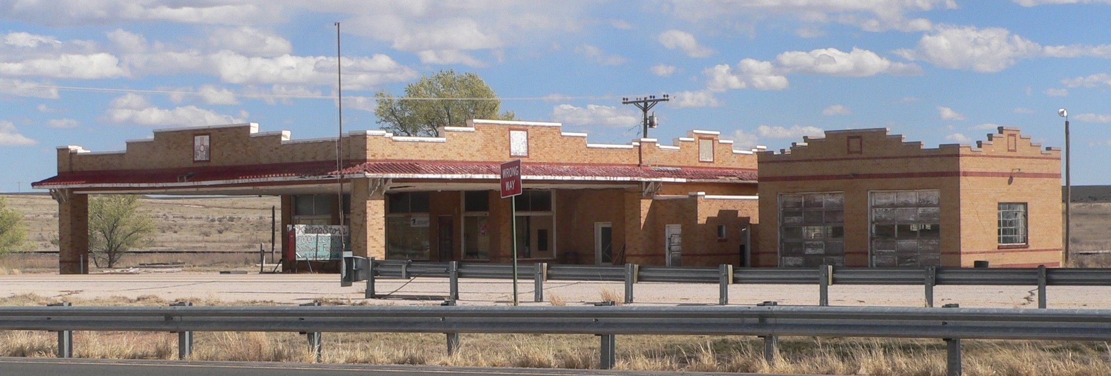 Kenna Store, at 38797 US 70 in Kenna, New Mexico; seen from the northwest, across Highway 70.